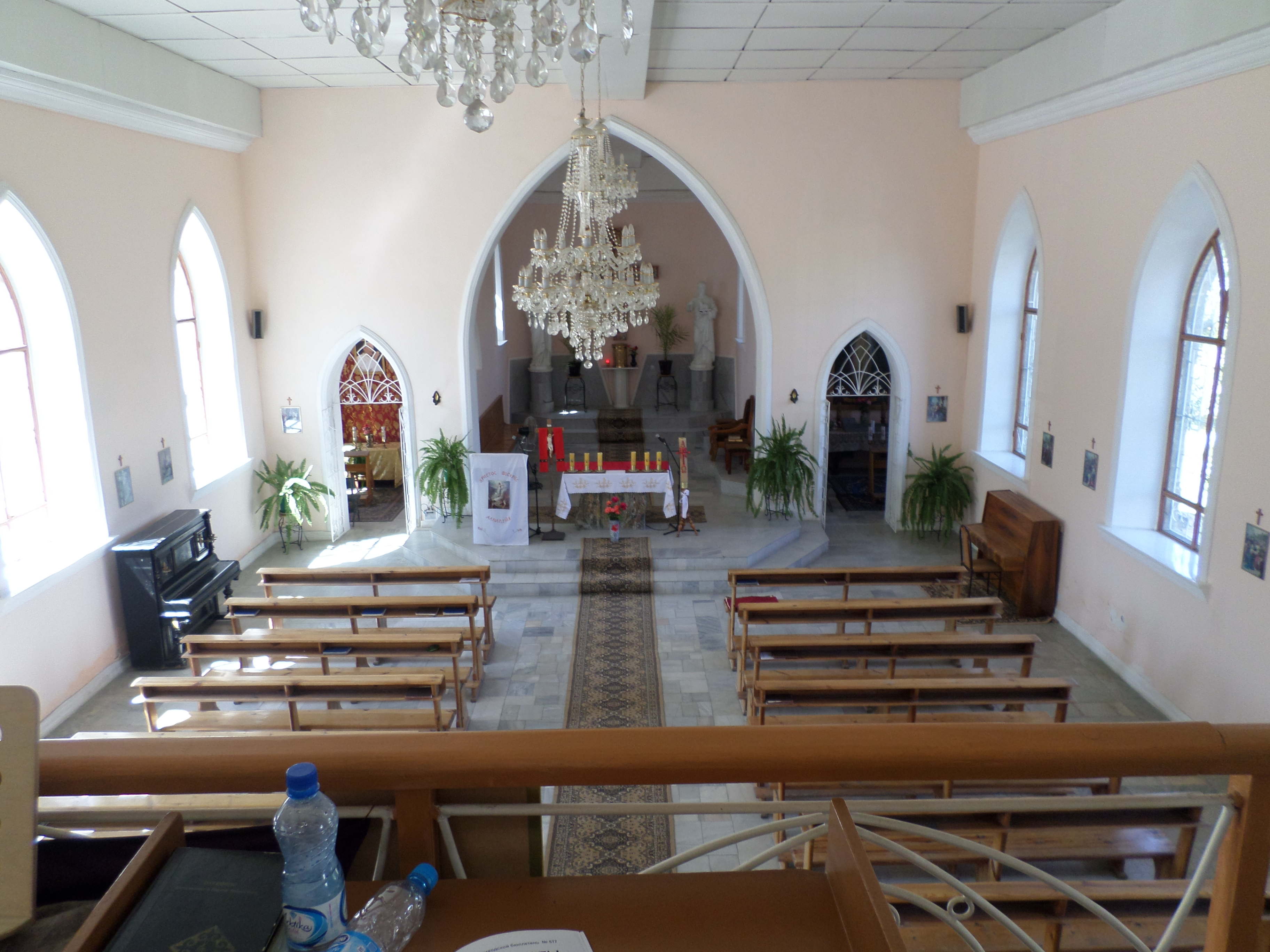 Church Saint John Baptist in Samarkand